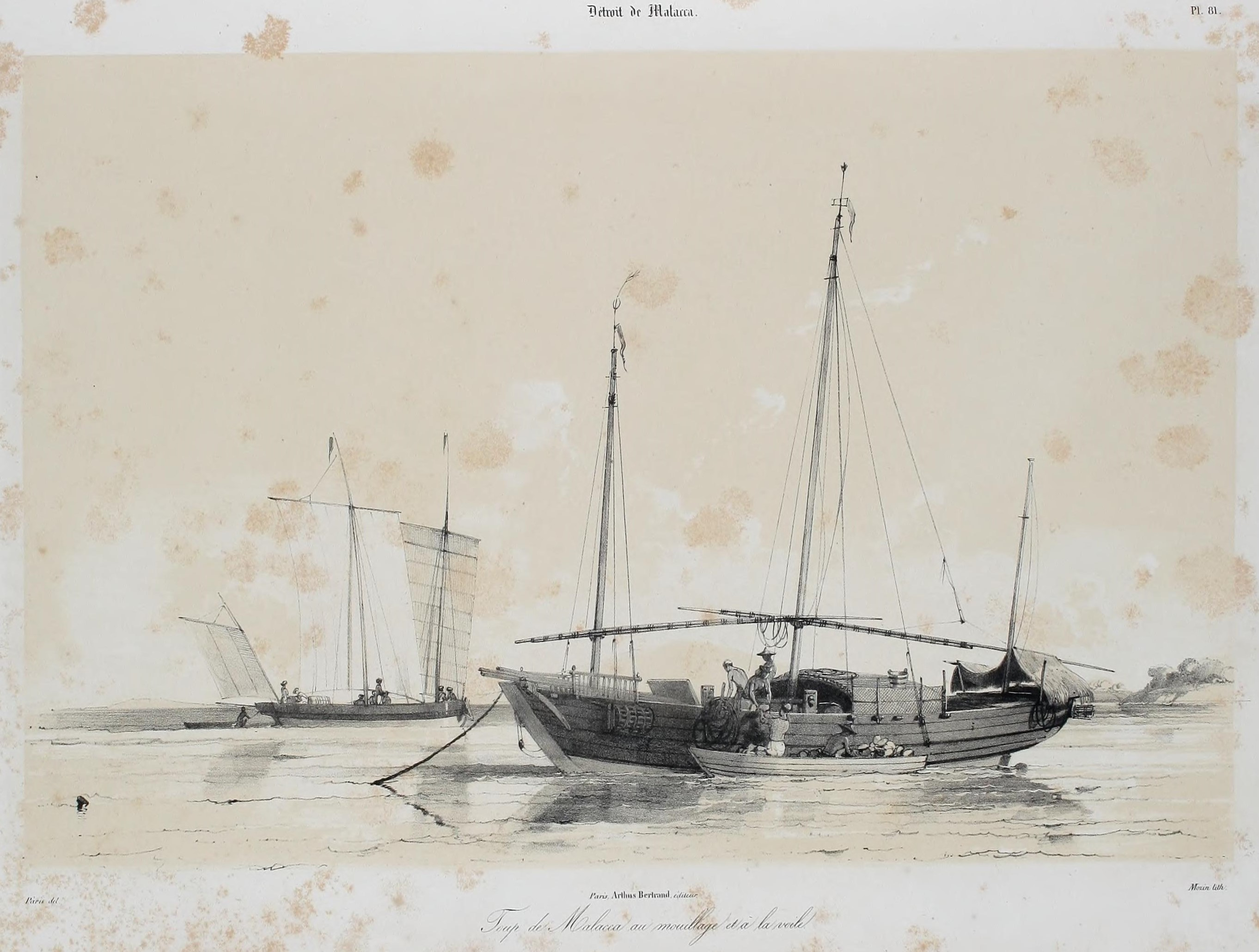 Toup (toop) of Malacca anchored in the strait of Malacca.